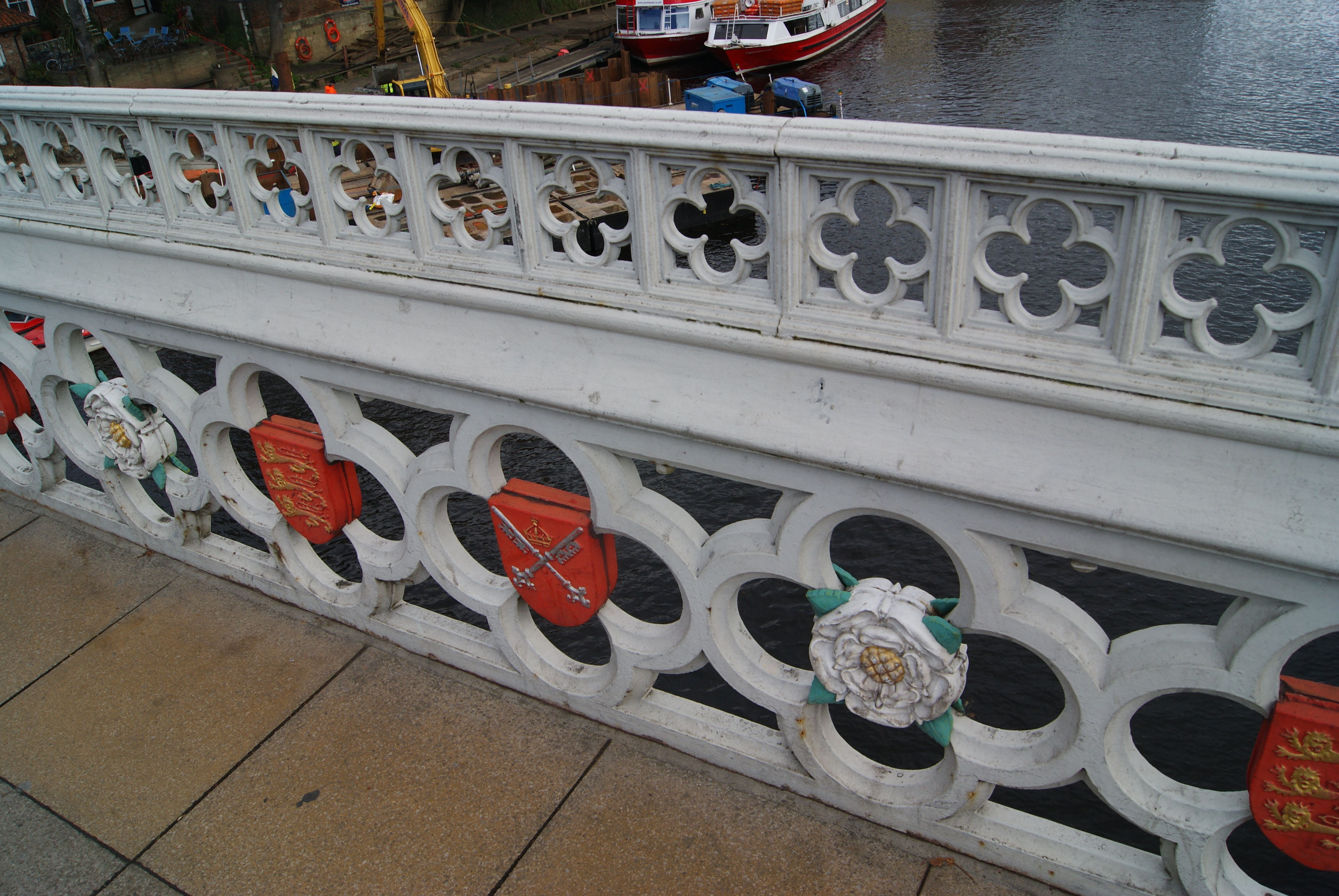 Ornate railing on Lendal Bridge in York, North Yorkshire. Includes coat of arms of England, Yorkist white rose, etc. in architectural quatrefoils. Photo taken on the afternoon of Thursday the 21st of October 2010.